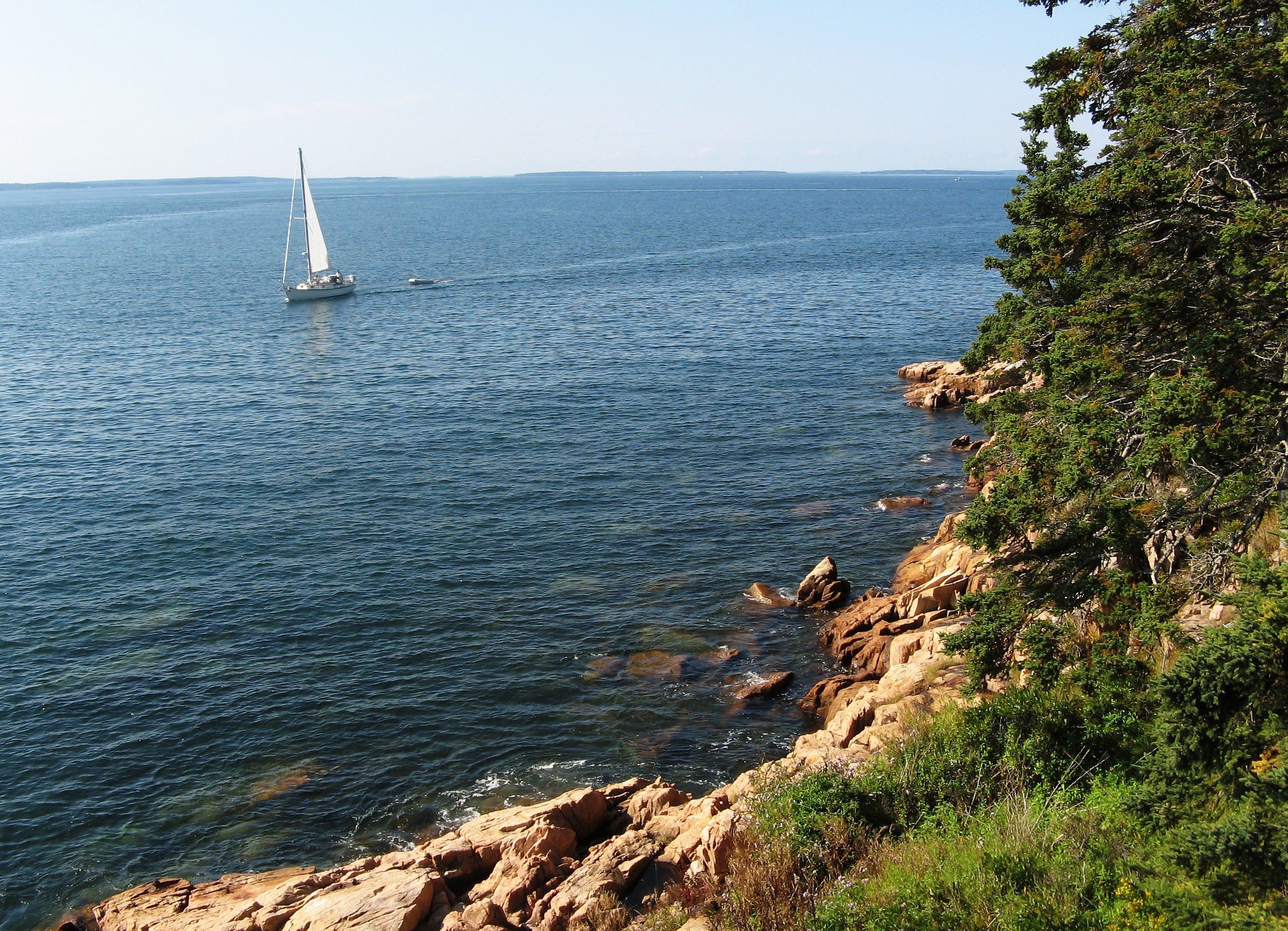 a beach in maine on a clear day with a sailboat